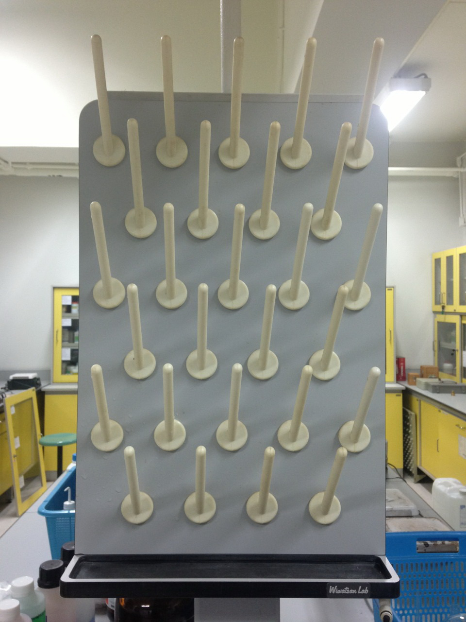 Lab drying in MUIC building Part 1